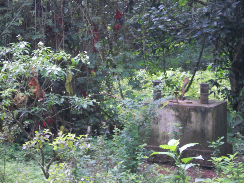 Snake worship at Achenkovil